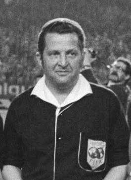 Gerhard Schulenburg in 1971.